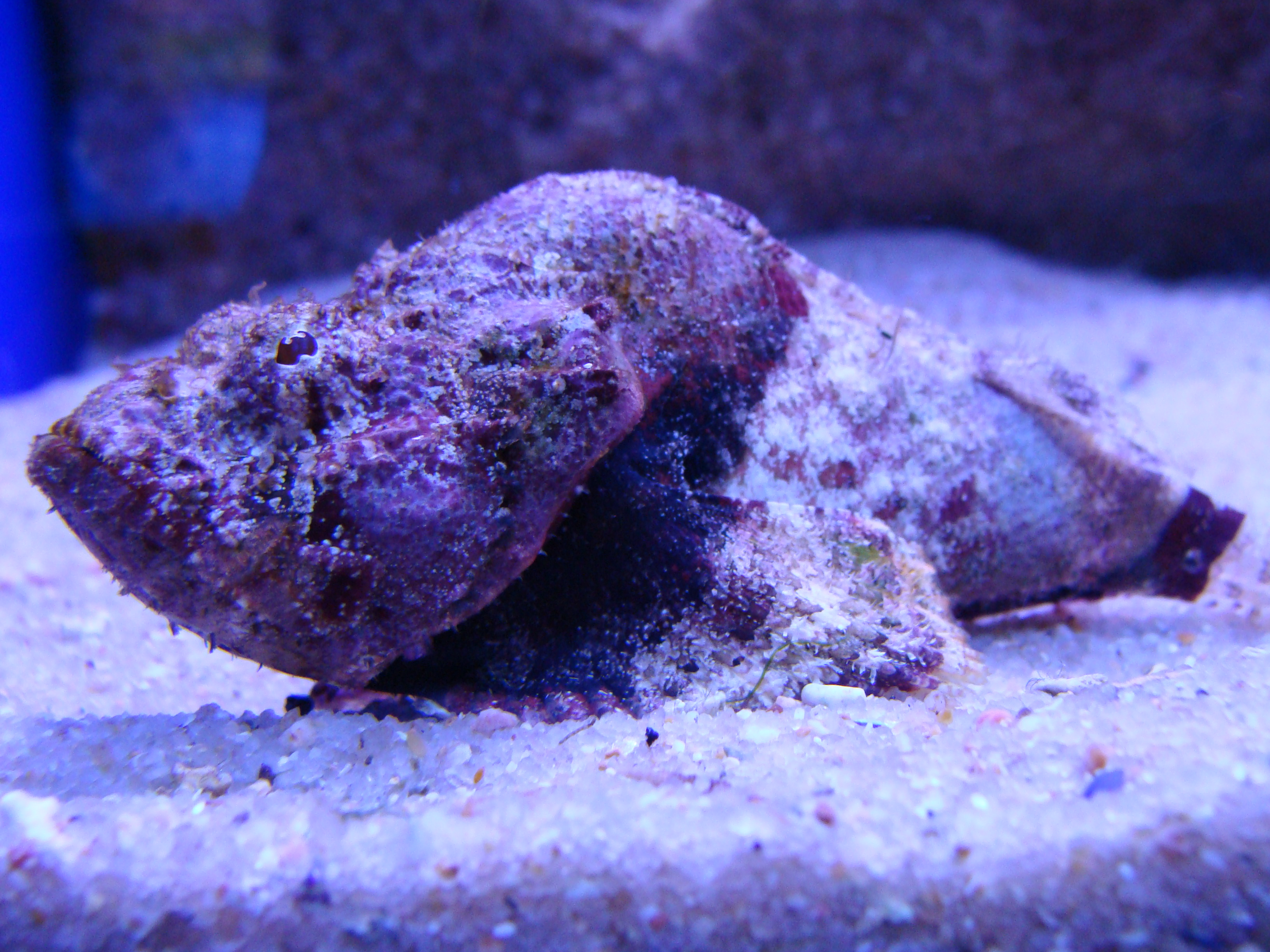 Synanceia sp. (stonefish) in Sala Humboldt of Aquarium Finisterrae (House of the Fishes), in Corunna, Galicia, Spain.